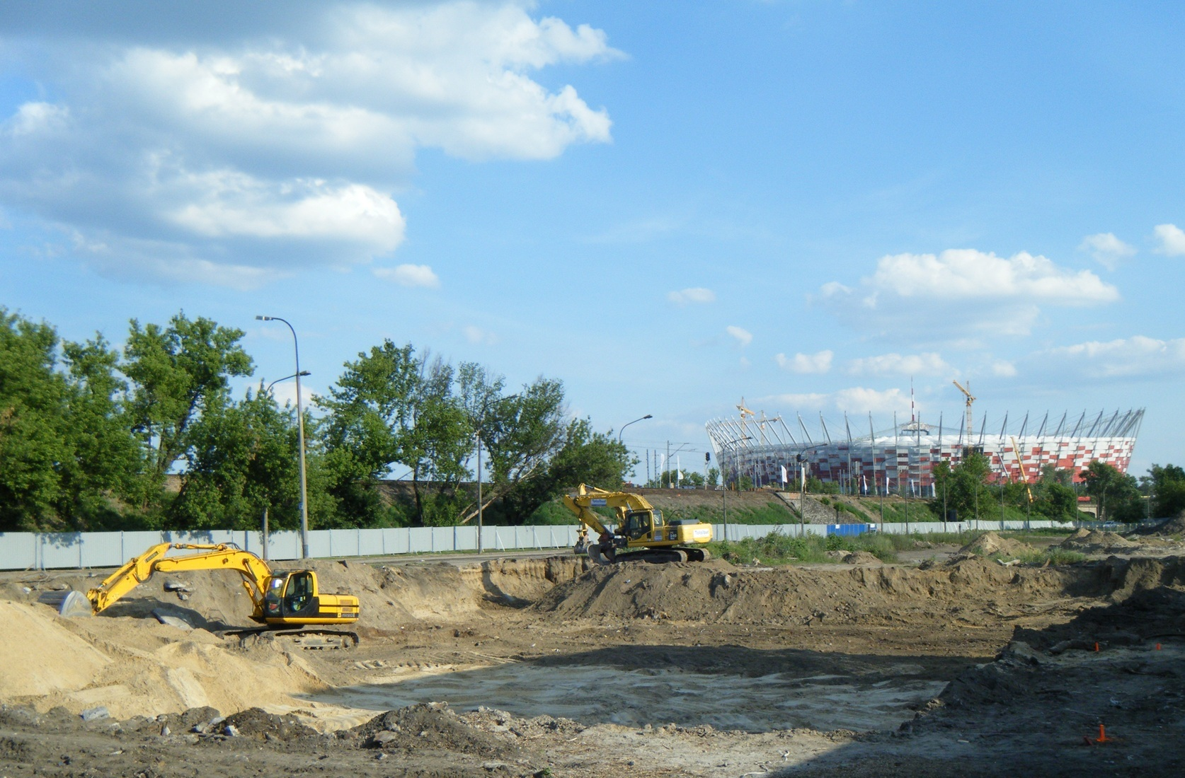 Stadion Narodowy metro station (under construction) in Warsaw